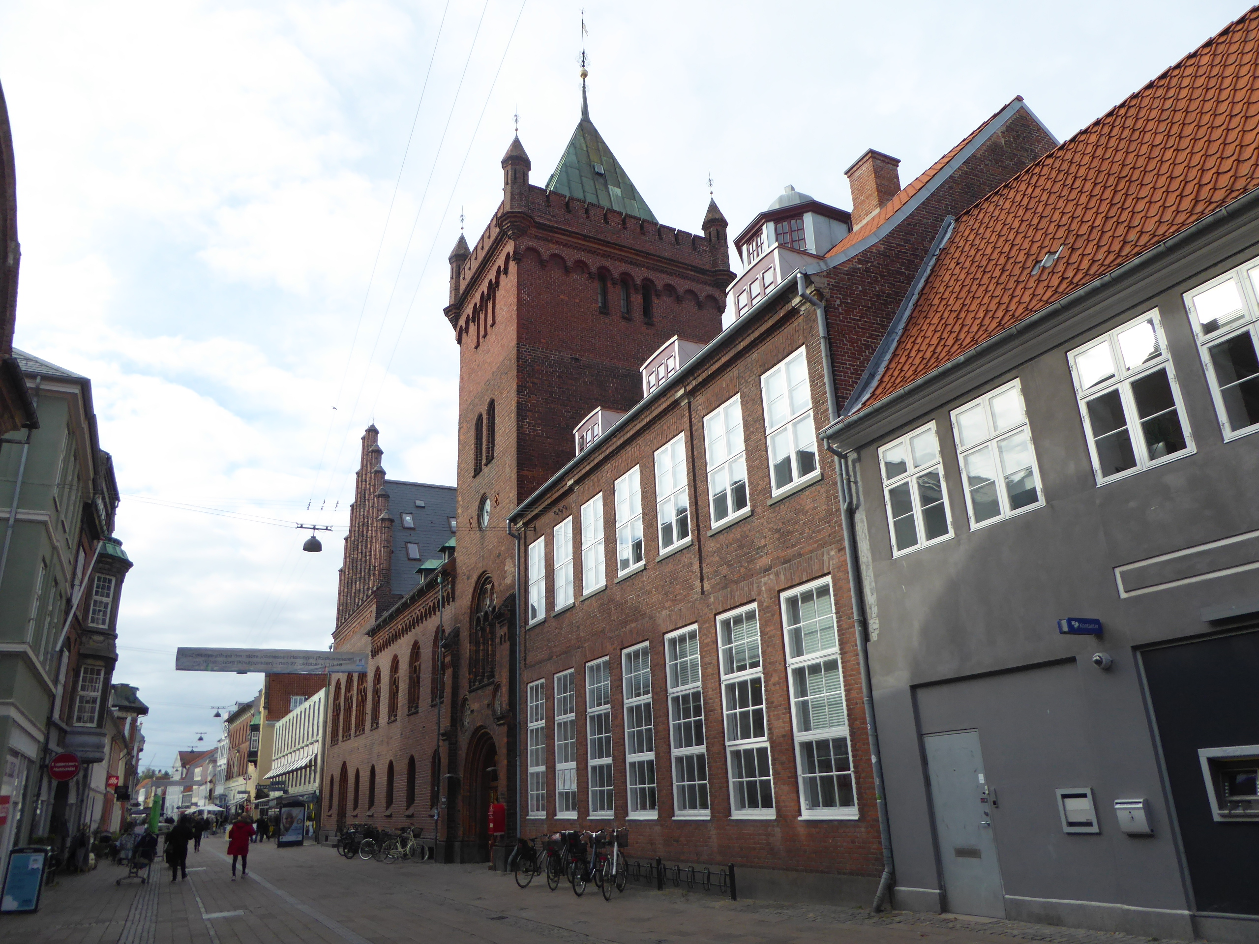 The town hall of Helsingør in Denmark.